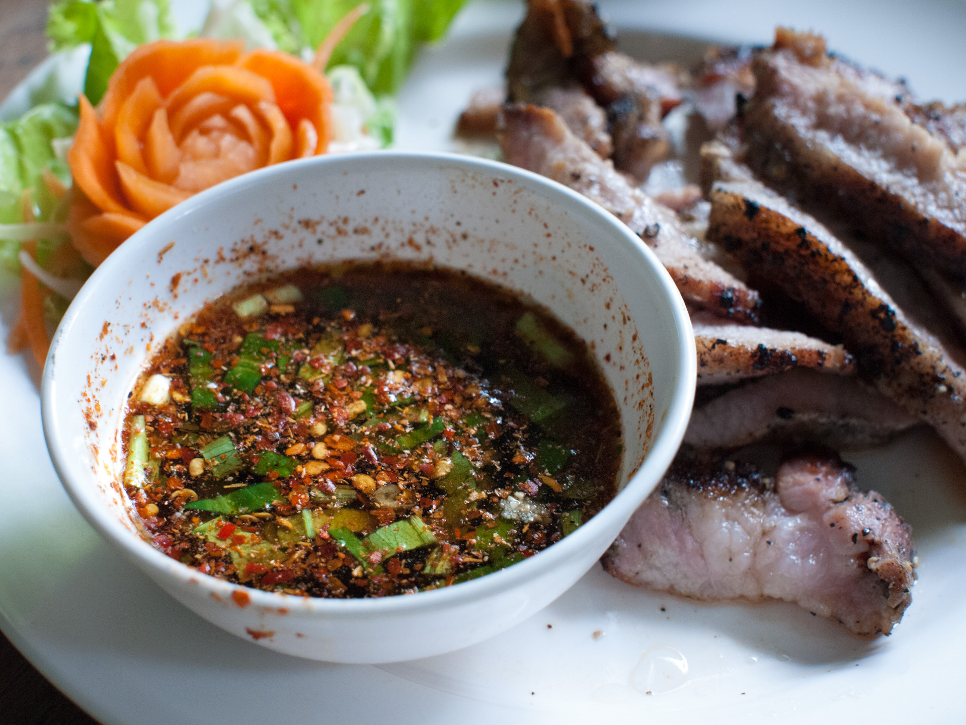 Nam chim chaeo (Thai script: น้ำจิ้มแจ่ว) is a Thai chilli dip made with roasted dried chillies, ground roasted sticky rice, fish sauce, lime juice, sugar and herbs.